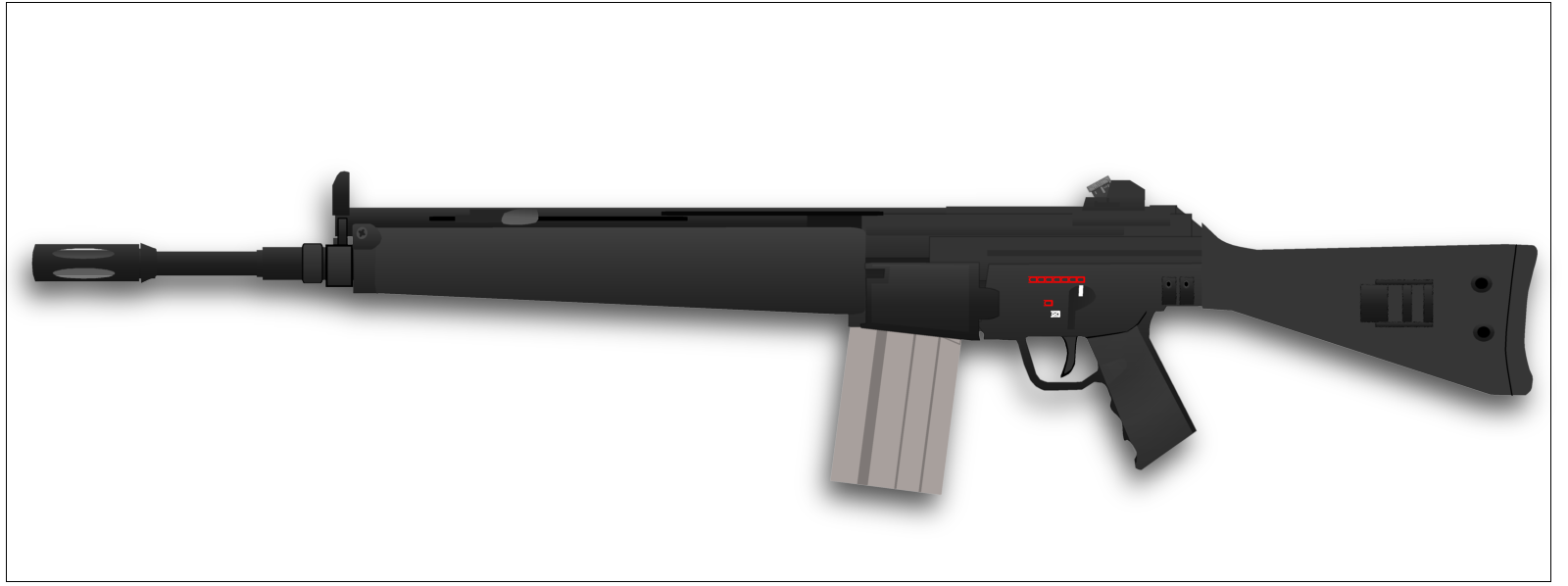 HK91 While updating Image:Nhso3.png I noticed we don't have any profiles of this weapon.